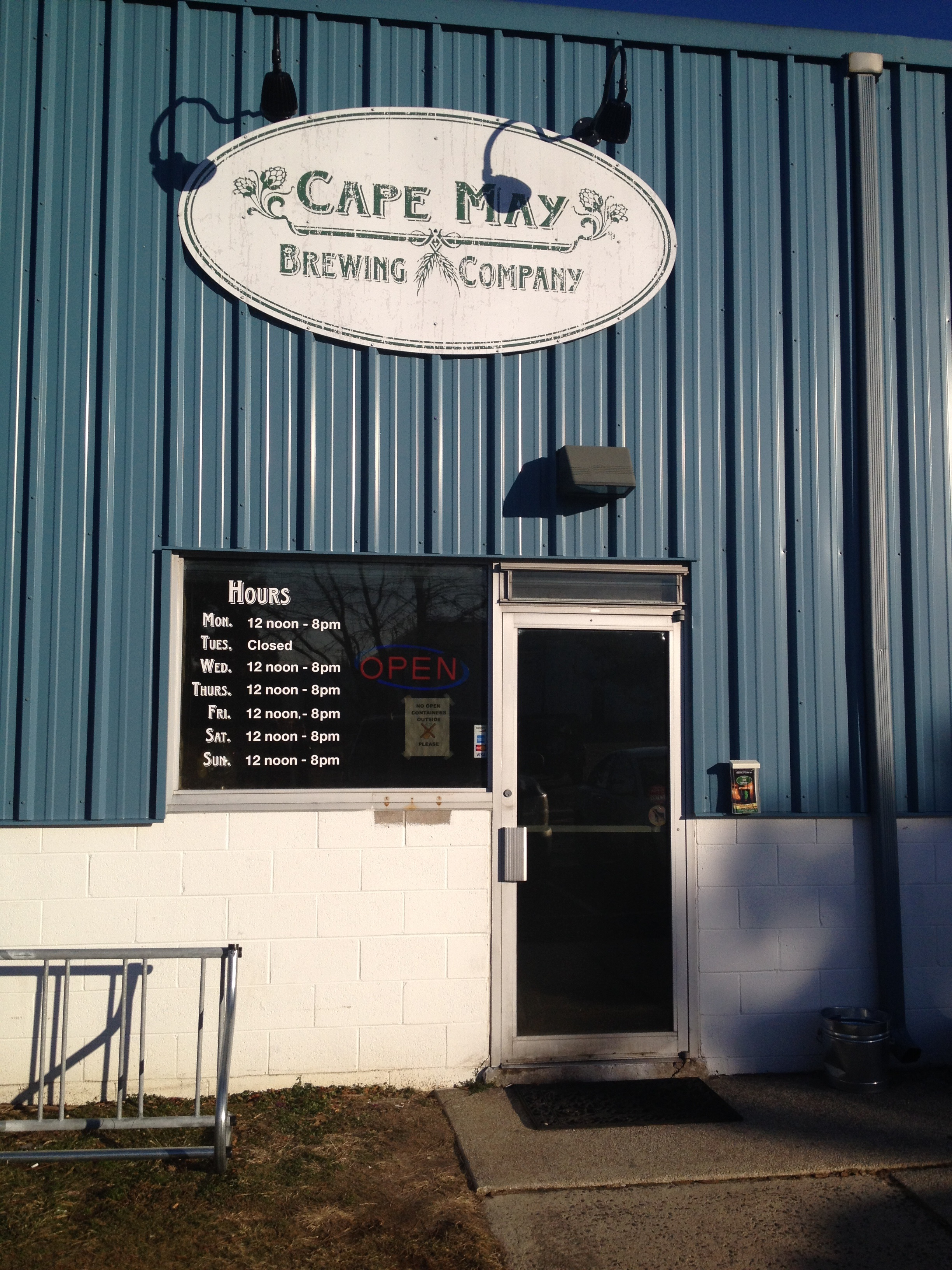 Front door of the Cape May Brewing Company